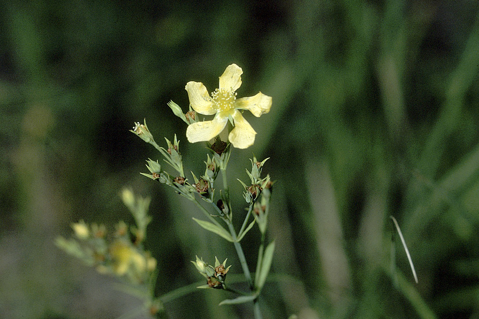 Hypericum denticulatum Walter - coppery St. Johnswort